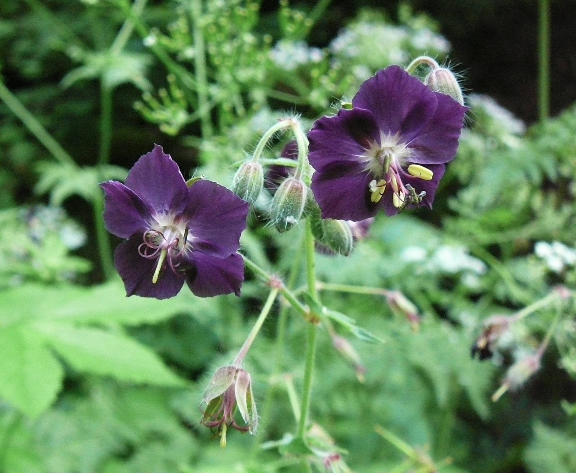 dusky cranesbill